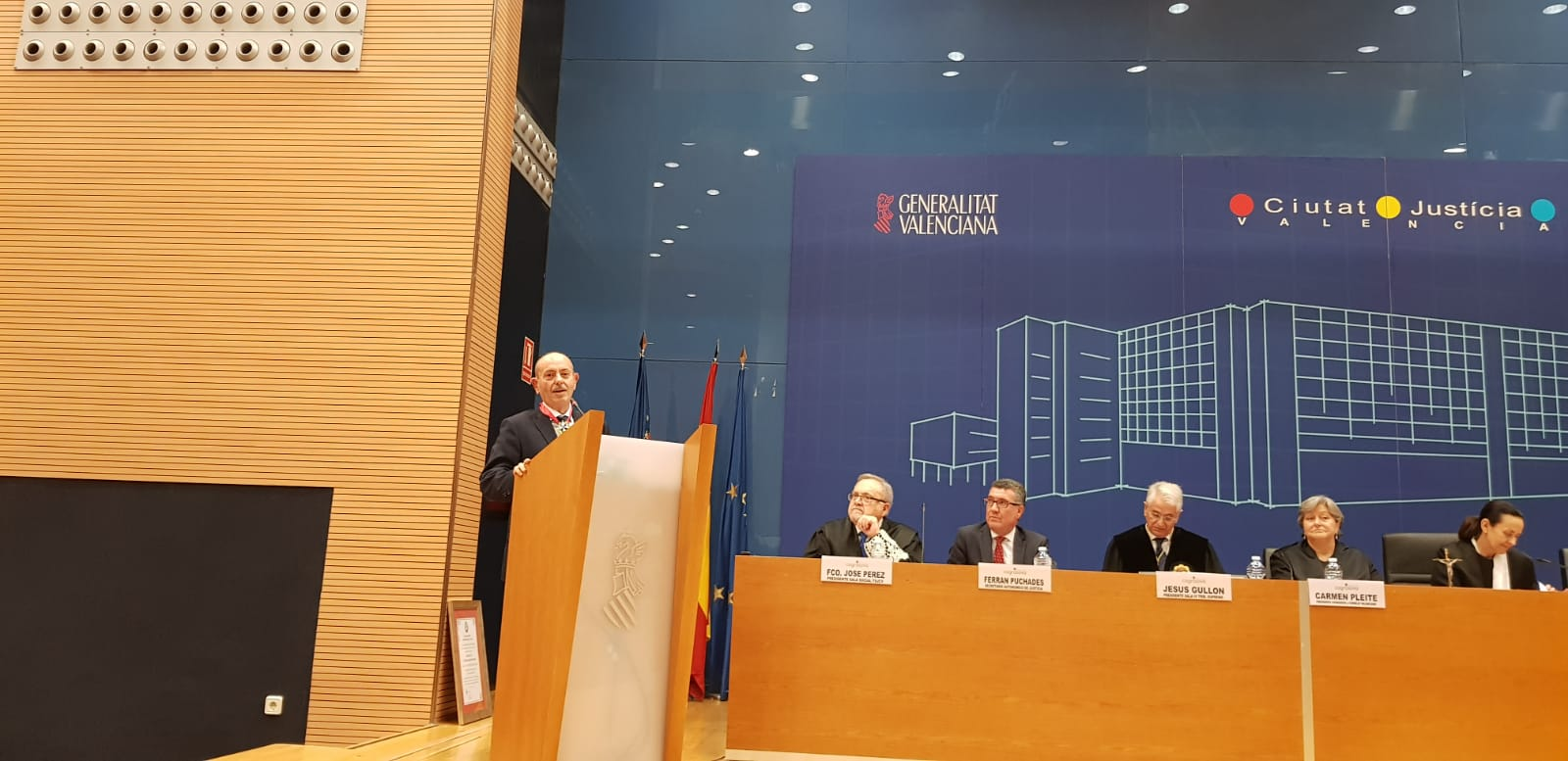 Carlos Alfonso